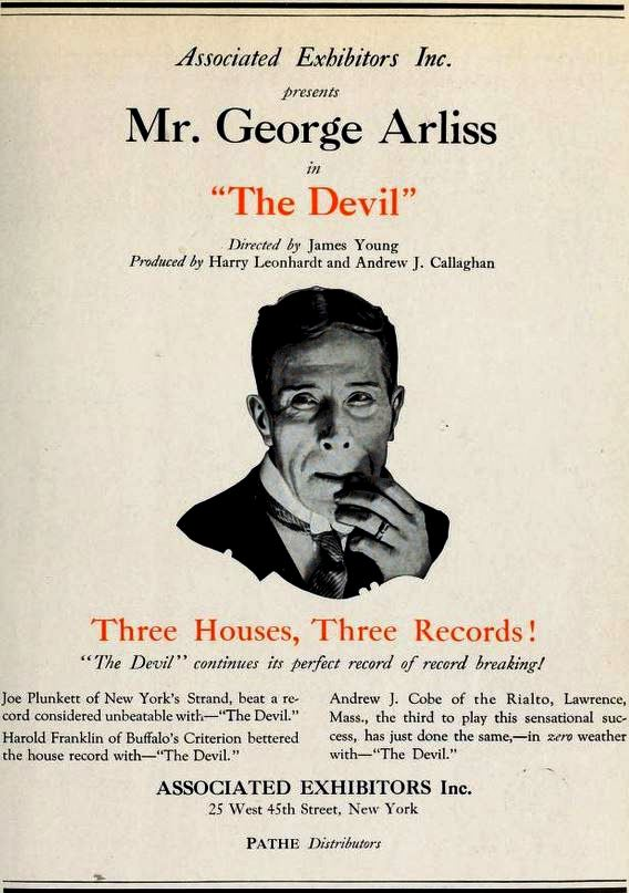 Advertisement for the American drama film The Devil (1921) with George Arliss, on page 11 of the February 27, 1921 Film Daily.